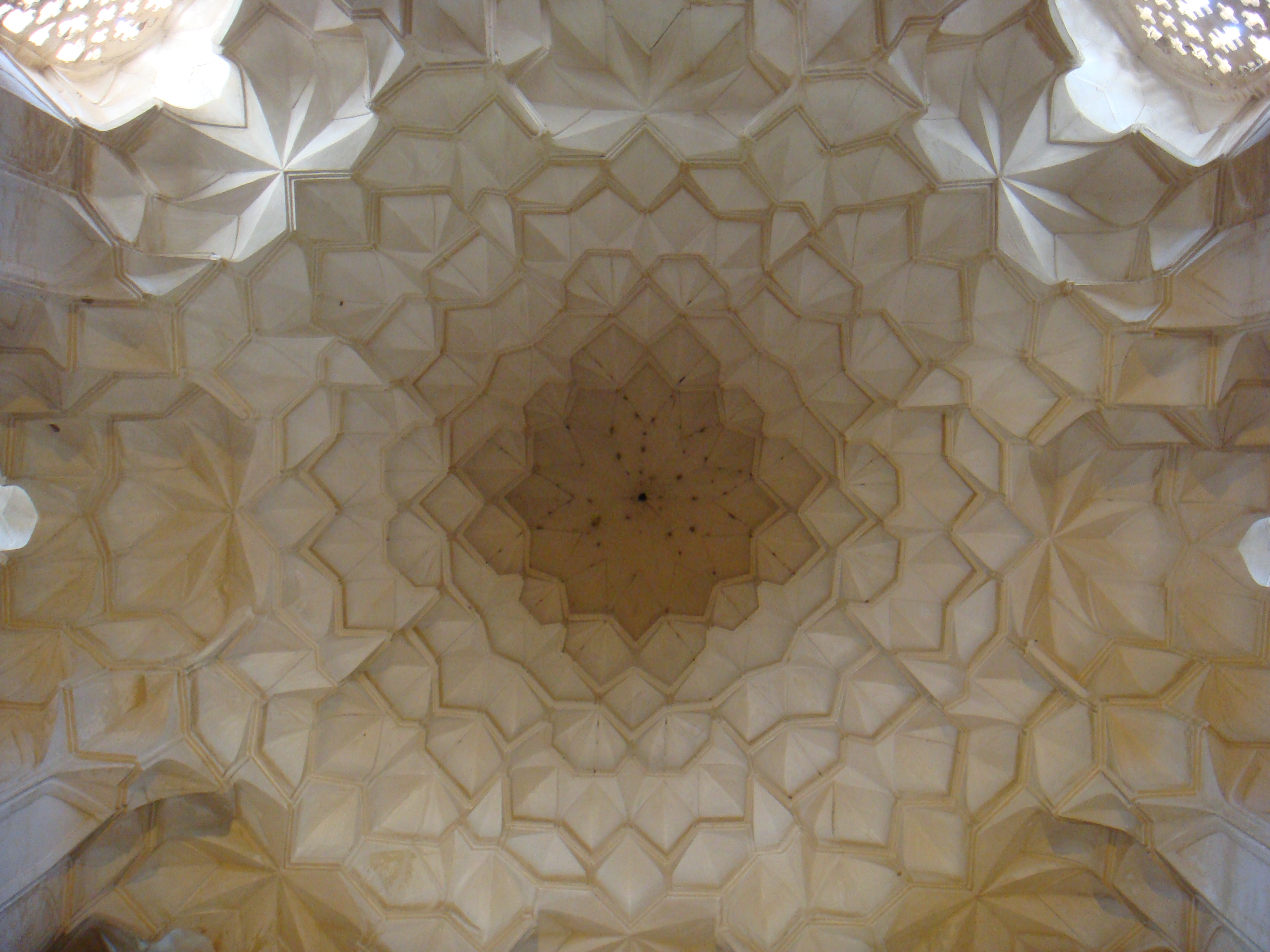 Inner Dome of Abdul Samad Isfahani Shrine